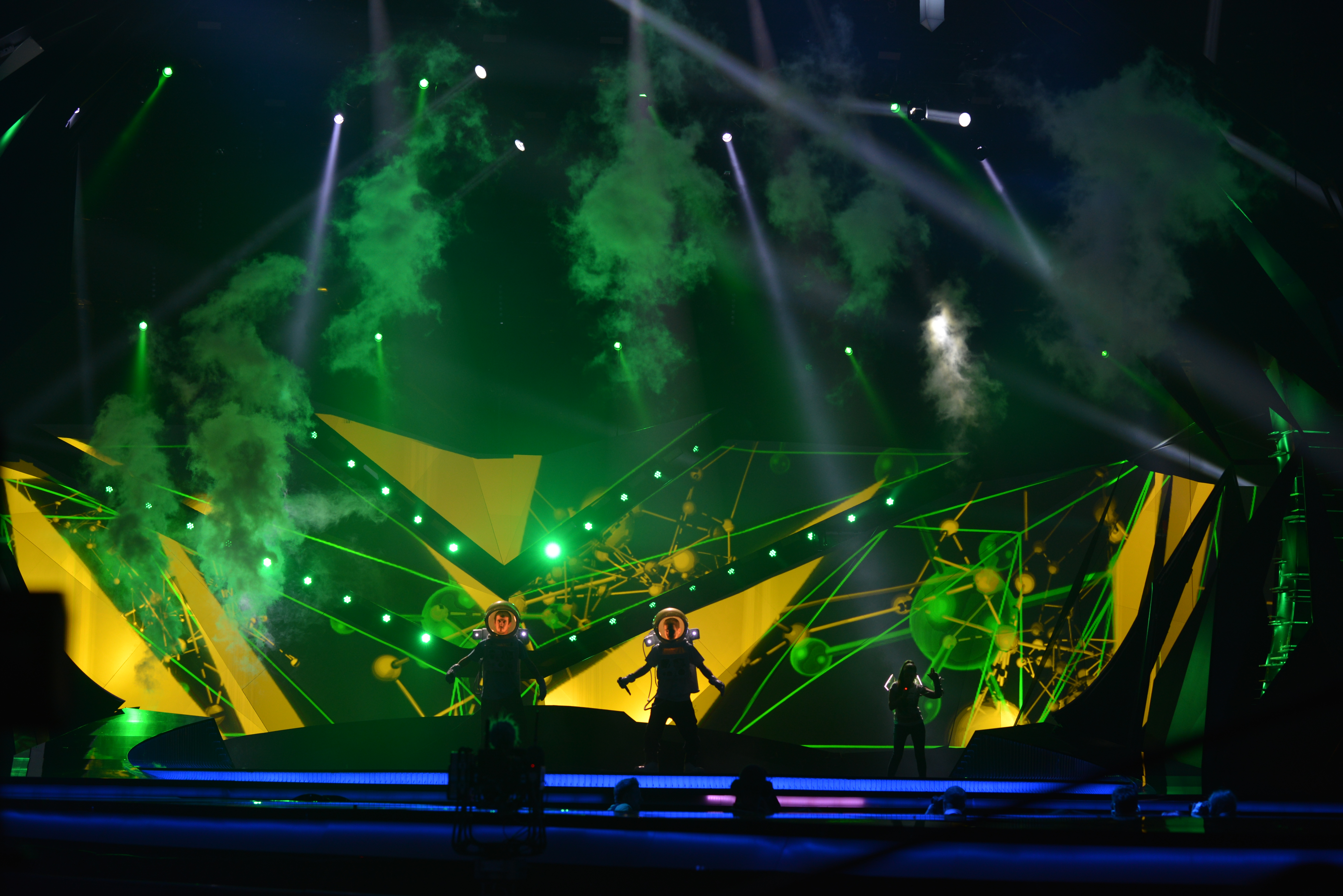 Who See representing Montenegro with the song "Igranka" (Игранка) during the first dress rehearsal of the first semi final of the Eurovision Song Contest 2013 in Malmö. (Help translate this text)